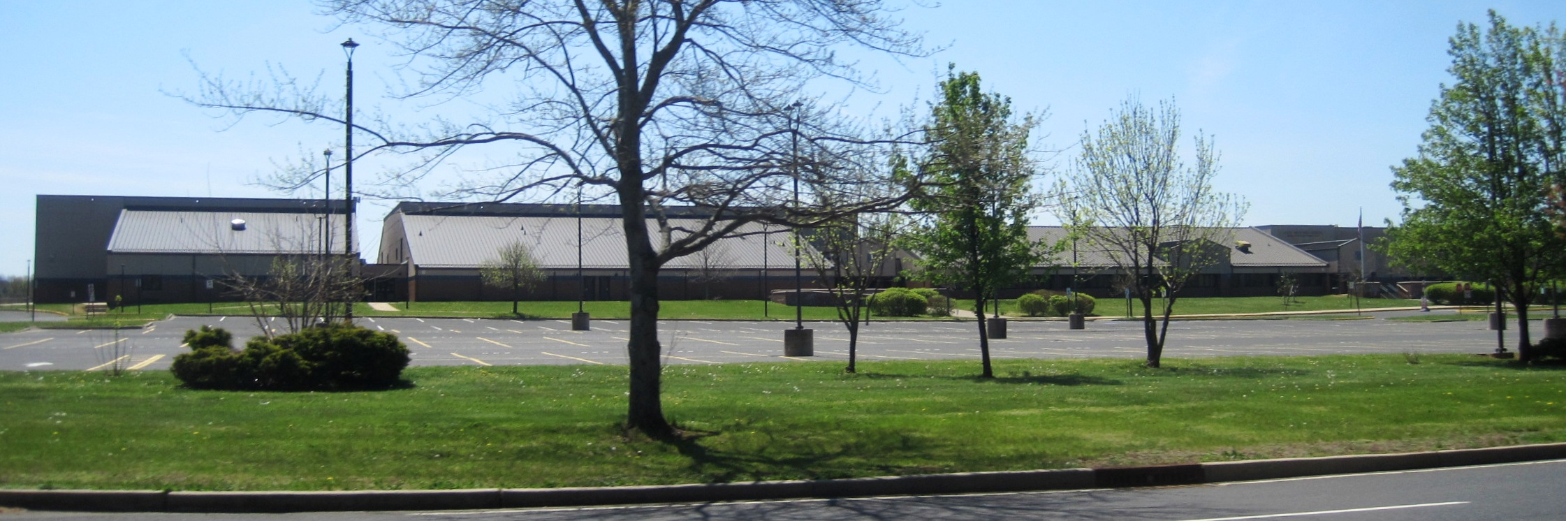 Photo showing the front of Colts Neck High School in Colts Neck Township, New Jersey. The school is located along County Route 537.